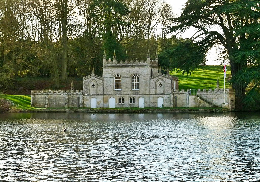 Fort Henry Pleasure House and flanking retaining Walls and Parapet, Exton, Rutland. A Grade II* listed building.